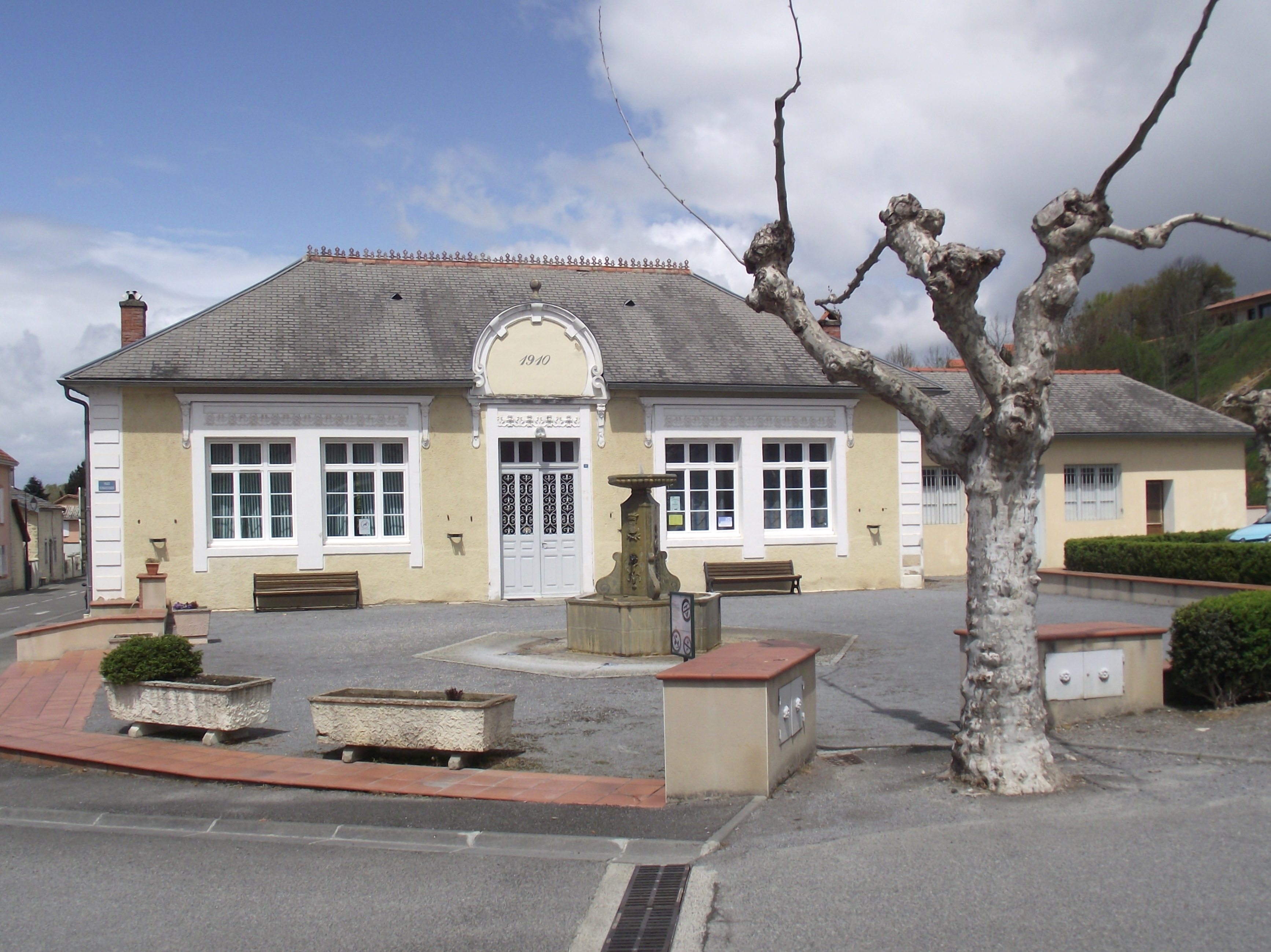 Denagiscarde Square, Tournay, Hautes-Pyrénées, France